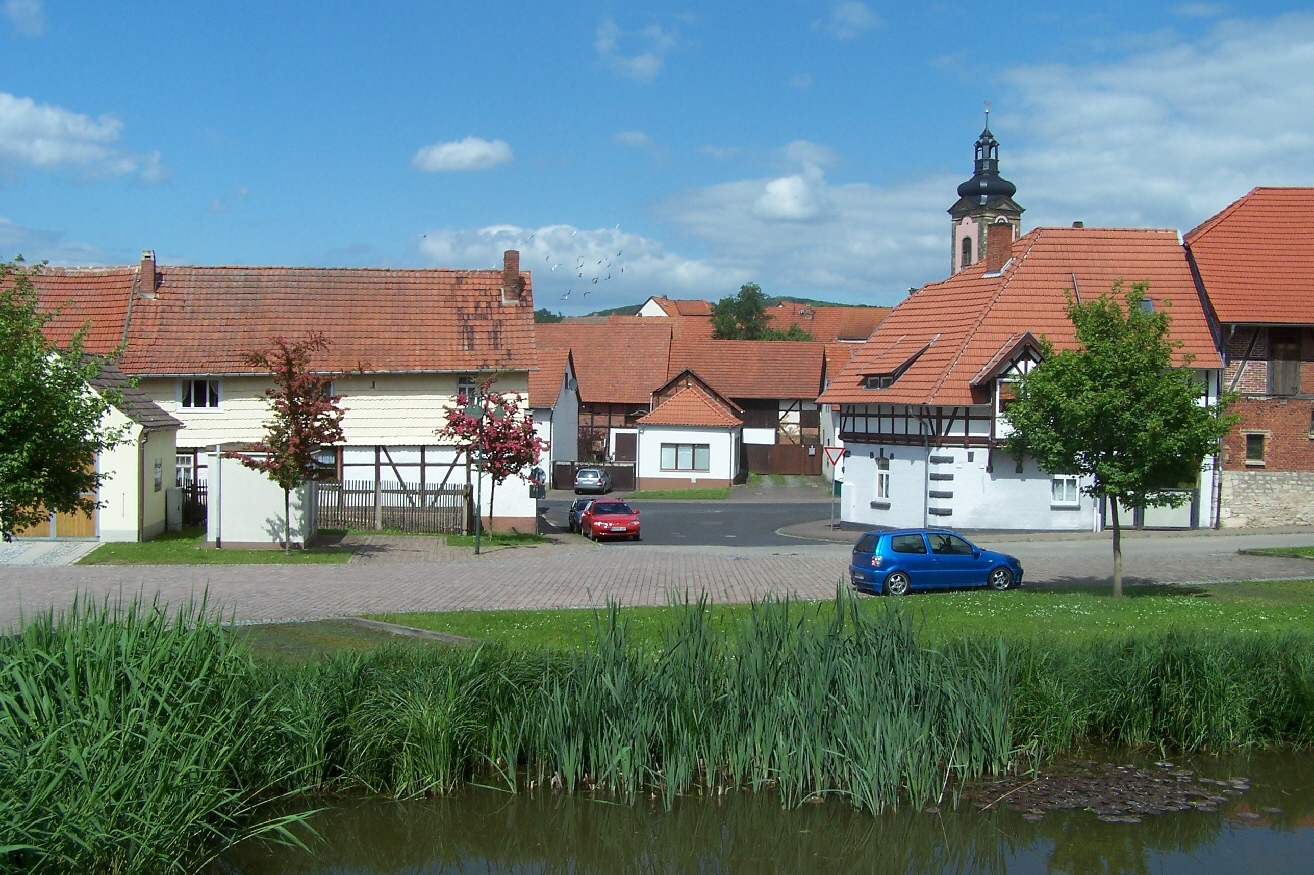 The gateway.